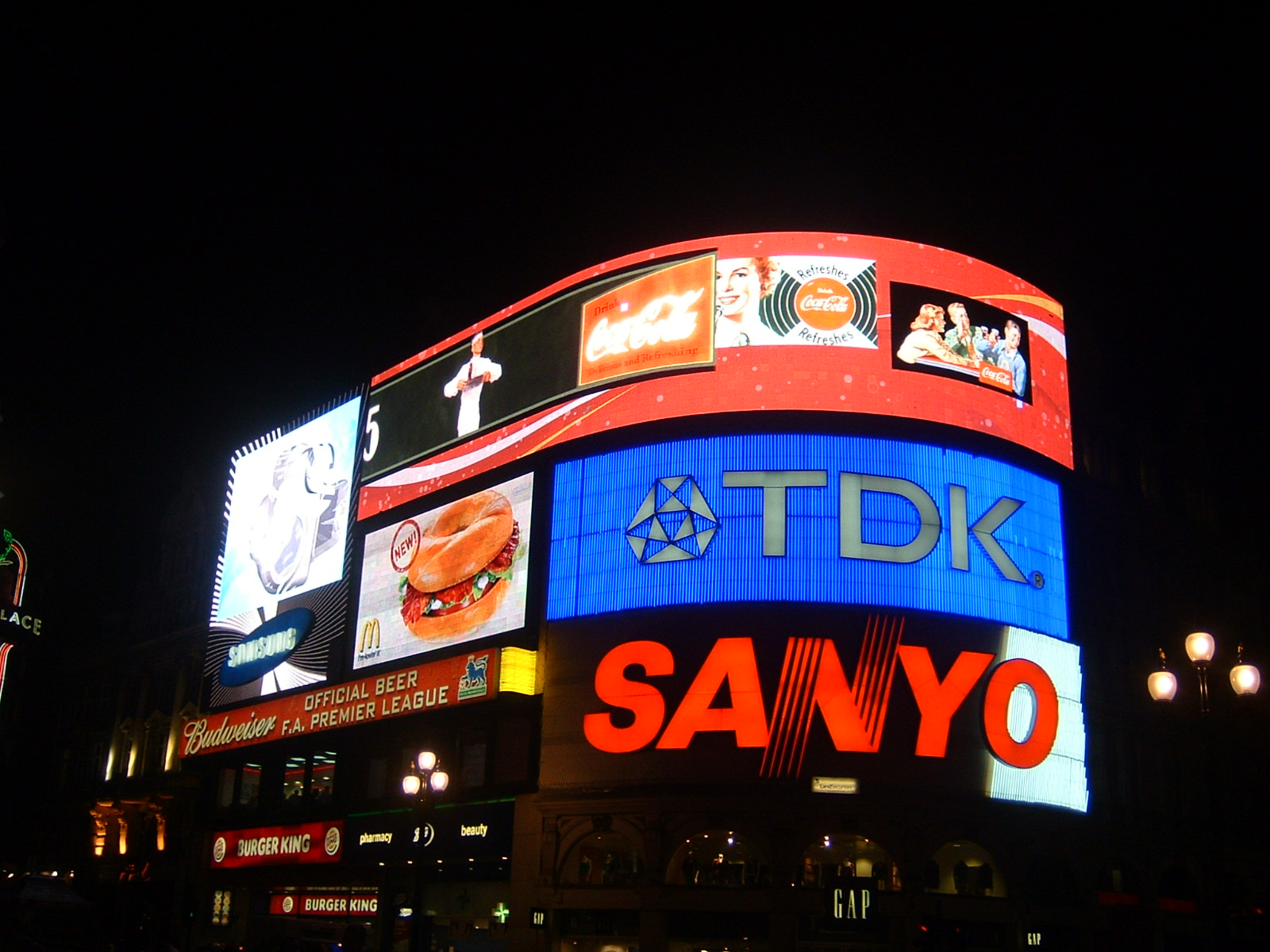 Piccadilly Circus at night